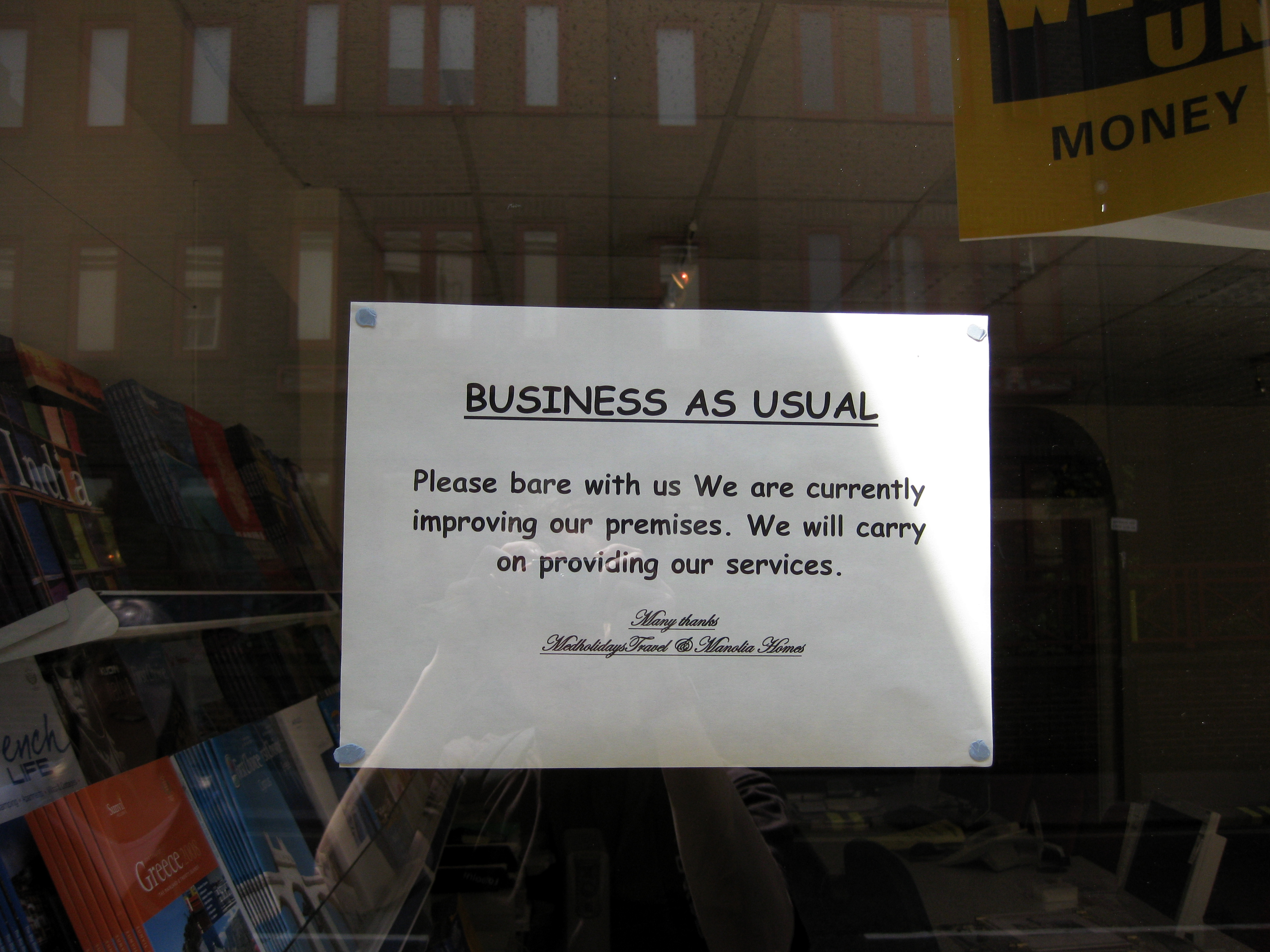 homophone error - bare instead of bear